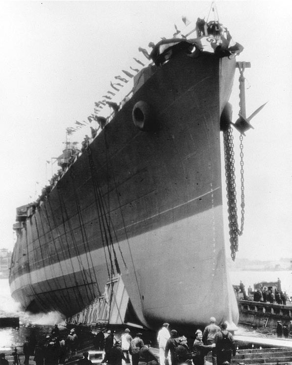 USS Atlanta (CL-104) slides down the shipways during her launching, at the New York Shipbuilding Corporation shipyard, Camden, New Jersey, on 6 February 1944.